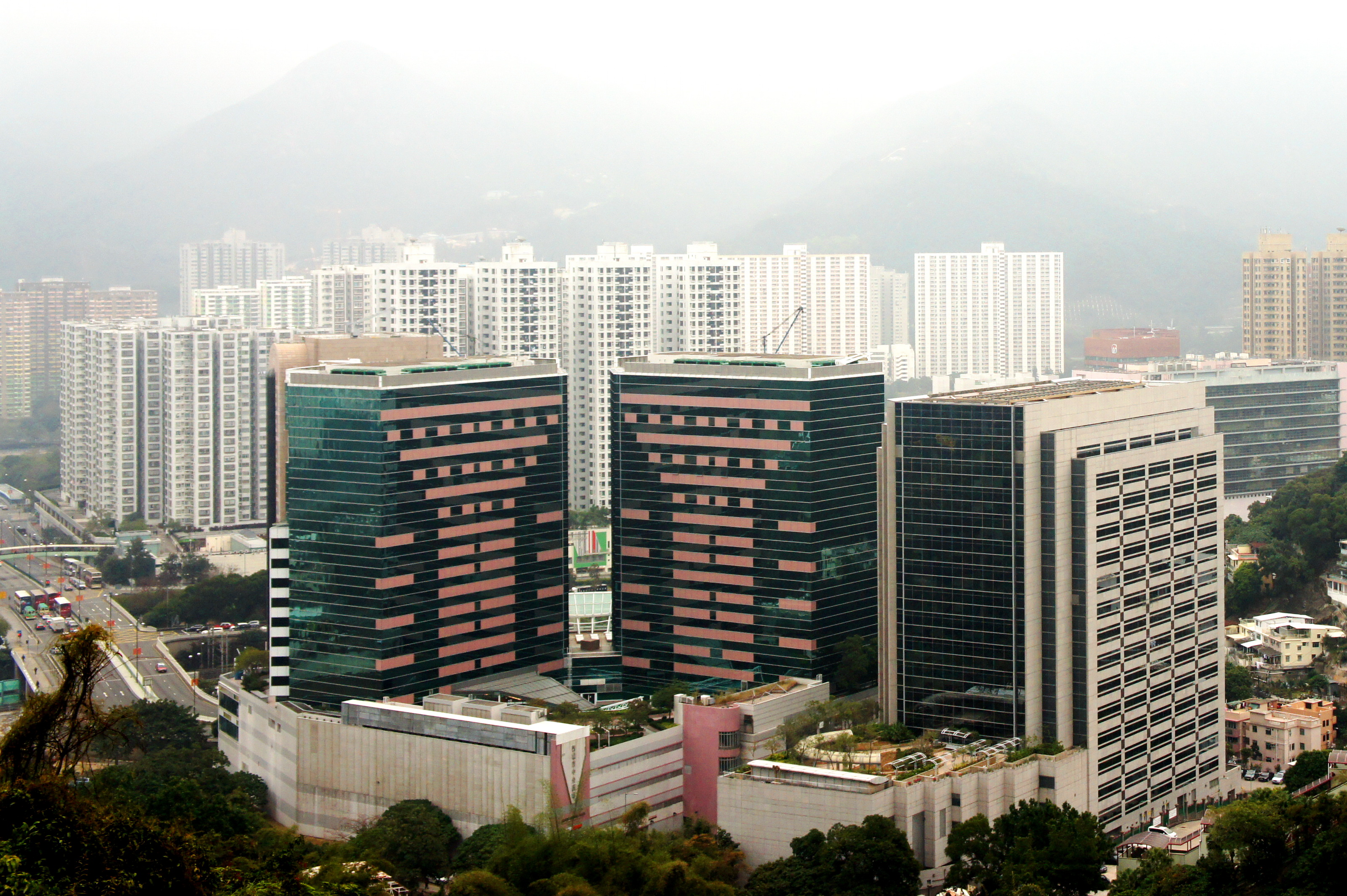 Grand Central Plaza (left) and Sha Tin Government Offices (right), Sha Tin, New Territories, Hong Kong.